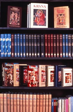 A Photograph of Srila Prabhupada's books